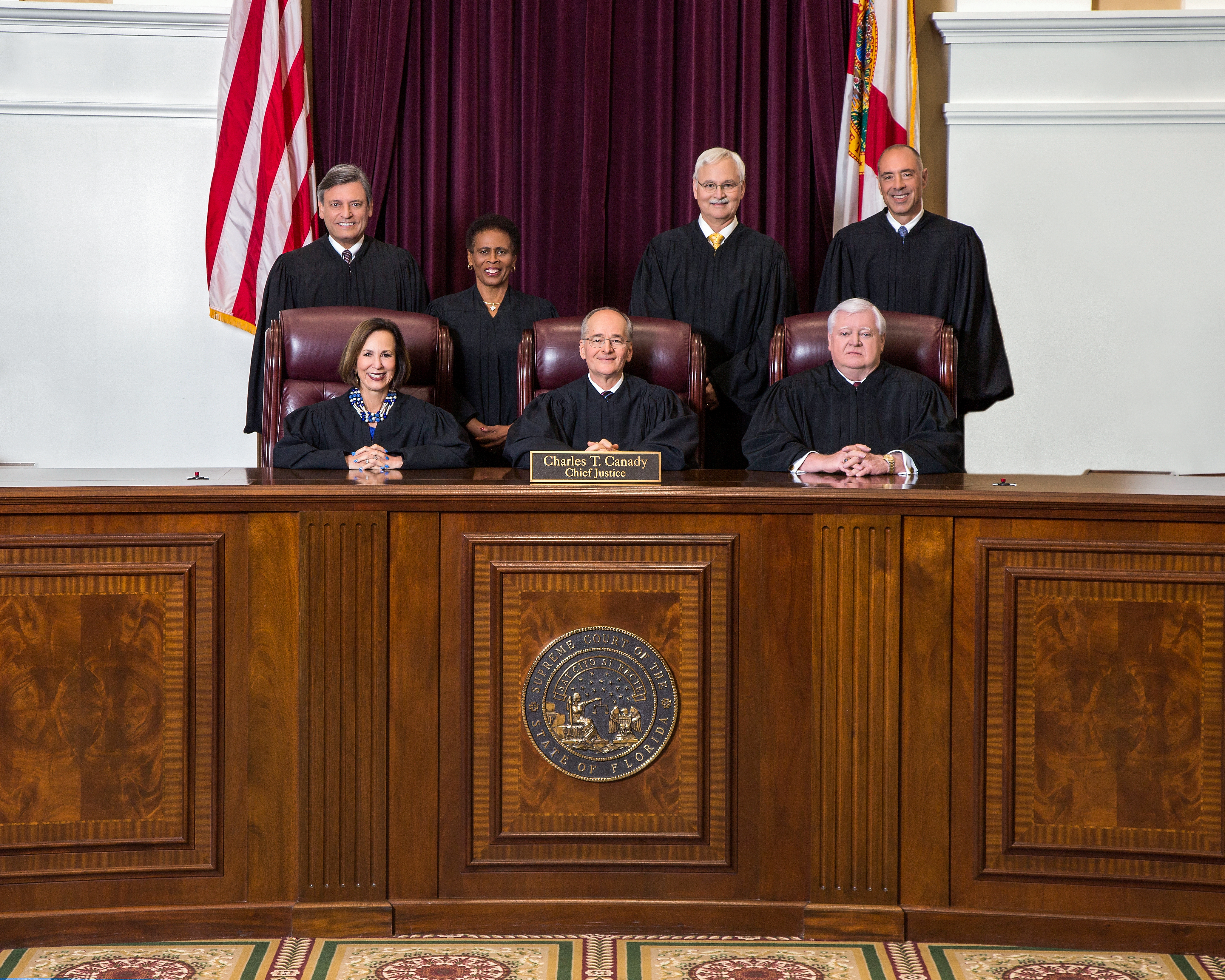 Florida Supreme Court in 2018 under Chief Justice Charles Canady.